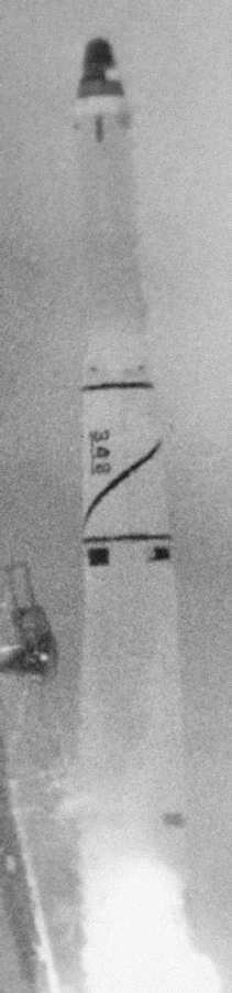 Launch of Corona 50 satellite on-board of Thor Agena B launch vehicle (Sep. 1, 1962)